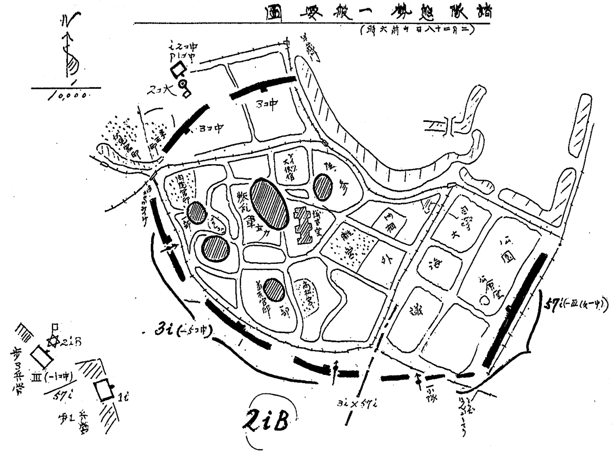 The battle map as of AM6:00 February 28 1936, when the troops of the IJA 3rd & 57th Infantry Regiments surrounded the rebel force of the "February 26 Incident".